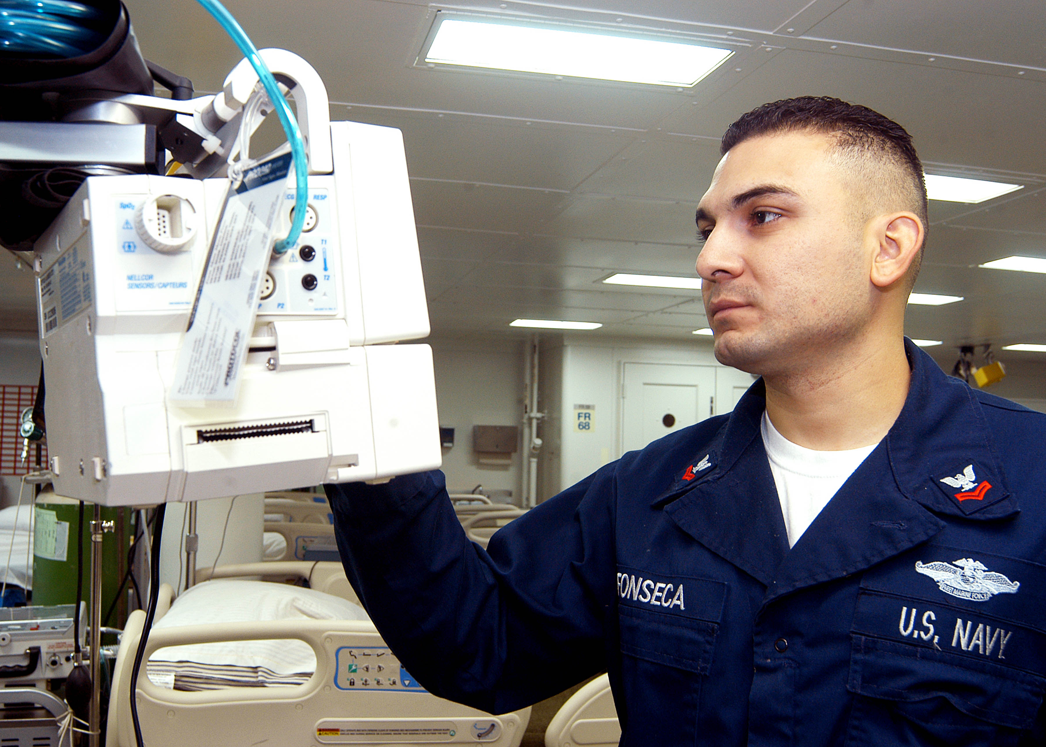 Navy Petty Officer 2nd Class Luis Fonseca, a hospital corpsman, checks a piece of medical equipment in the course of his daily routine of caring for servicemembers. Fonseca earned a Navy Cross for bravery during the battle of Nasiriyah, Iraq, on March 23, 2003. He treated about a dozen Marines during a six-and-a-half hour firefight.